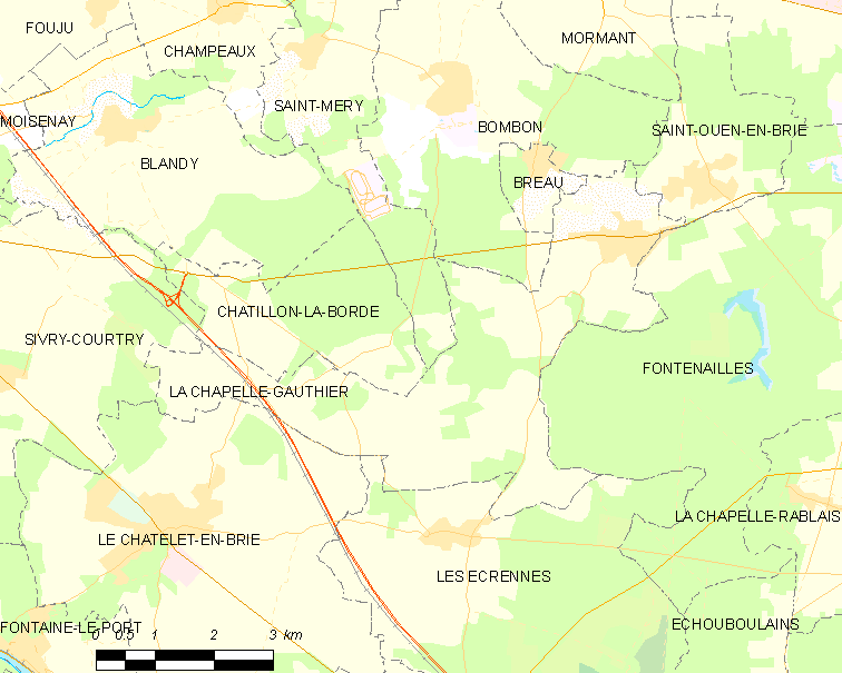 Map of French municipality La Chapelle-Gauthier